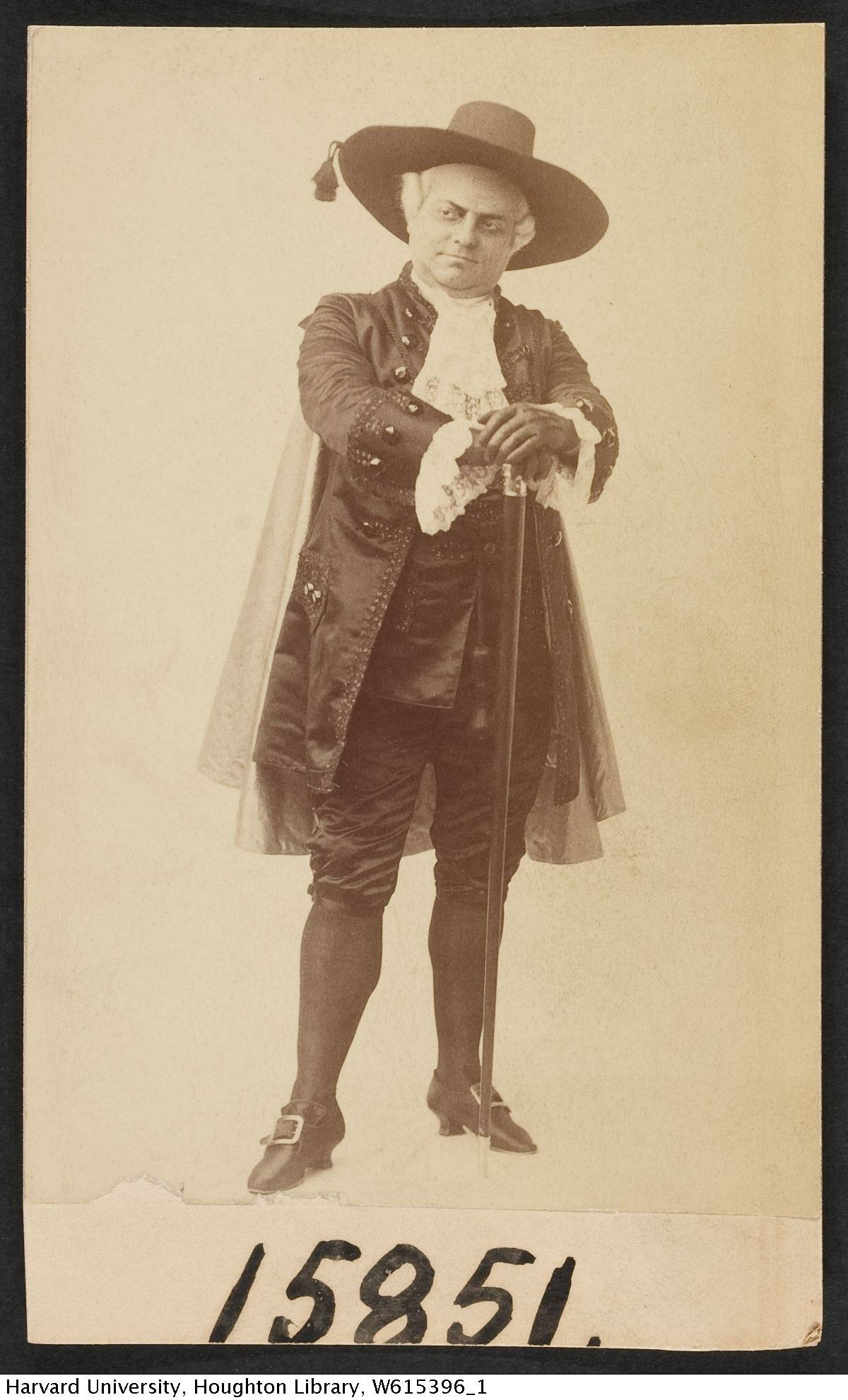 Cabinet card image of English actor and singer Fred Billington (1854-1917), in costume. TCS 1.2494, Harvard Theatre Collection, Harvard University